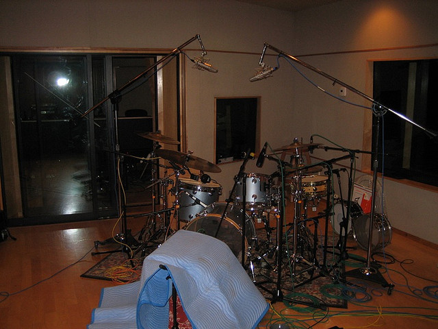 Photograph of a drum kit showing microphone placements